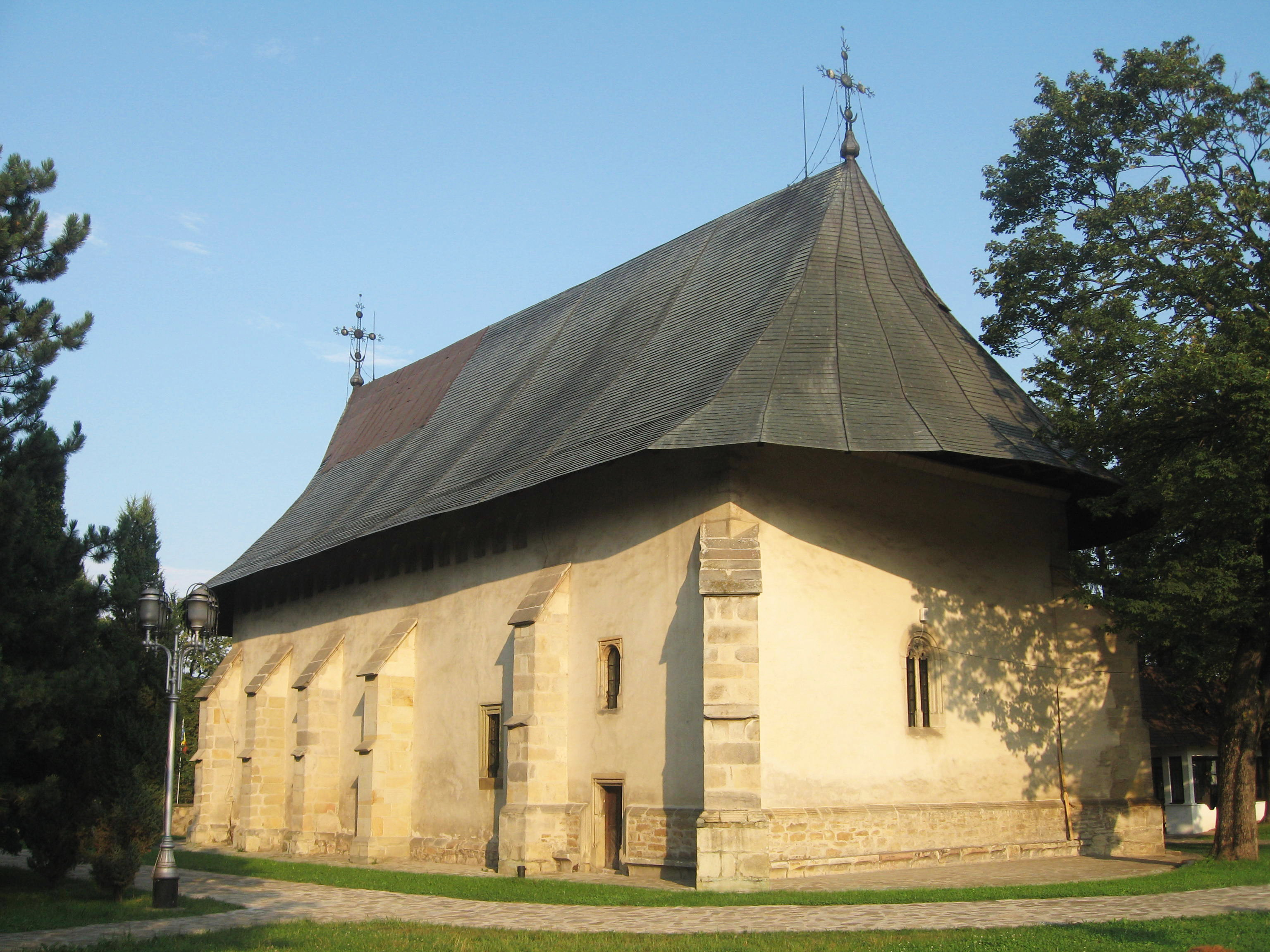 Bogdana Monastery